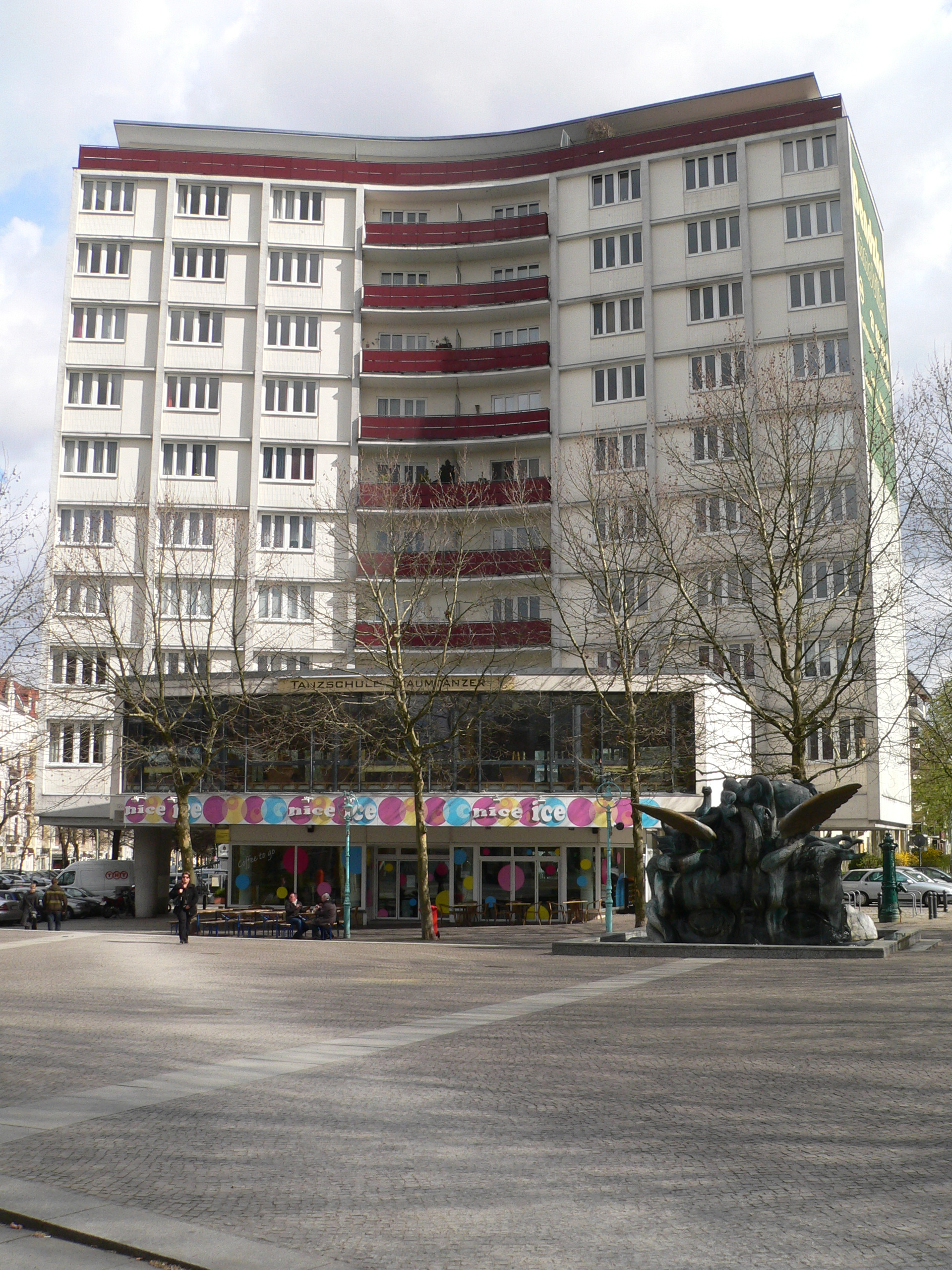 Berlin-Halensee Henriettenplatz Southern Side Wohn- und Geschäftshaus von Helmut Ollk Gert von Schöppenthau 1956